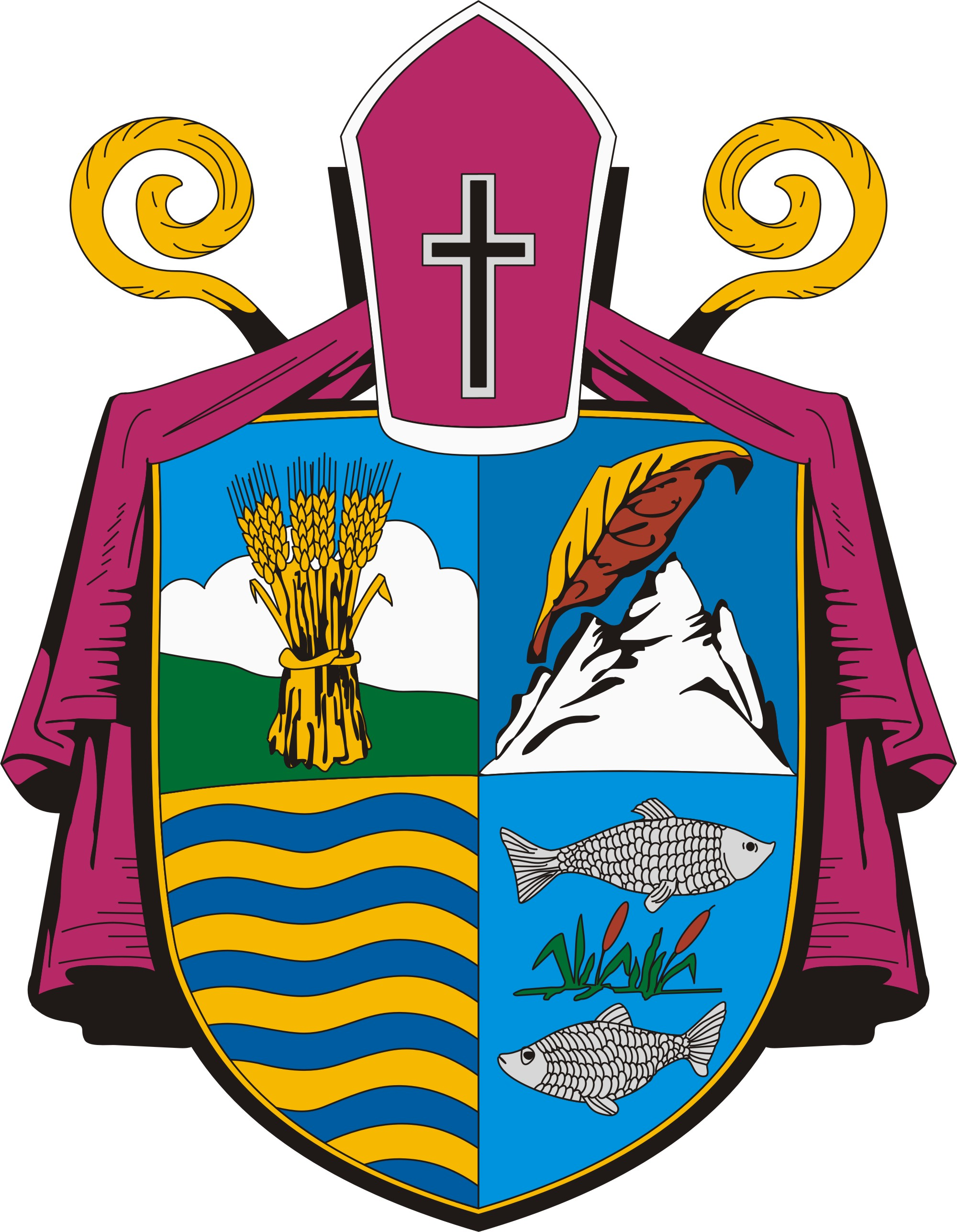 Coat of arms of Újiráz, Hungary